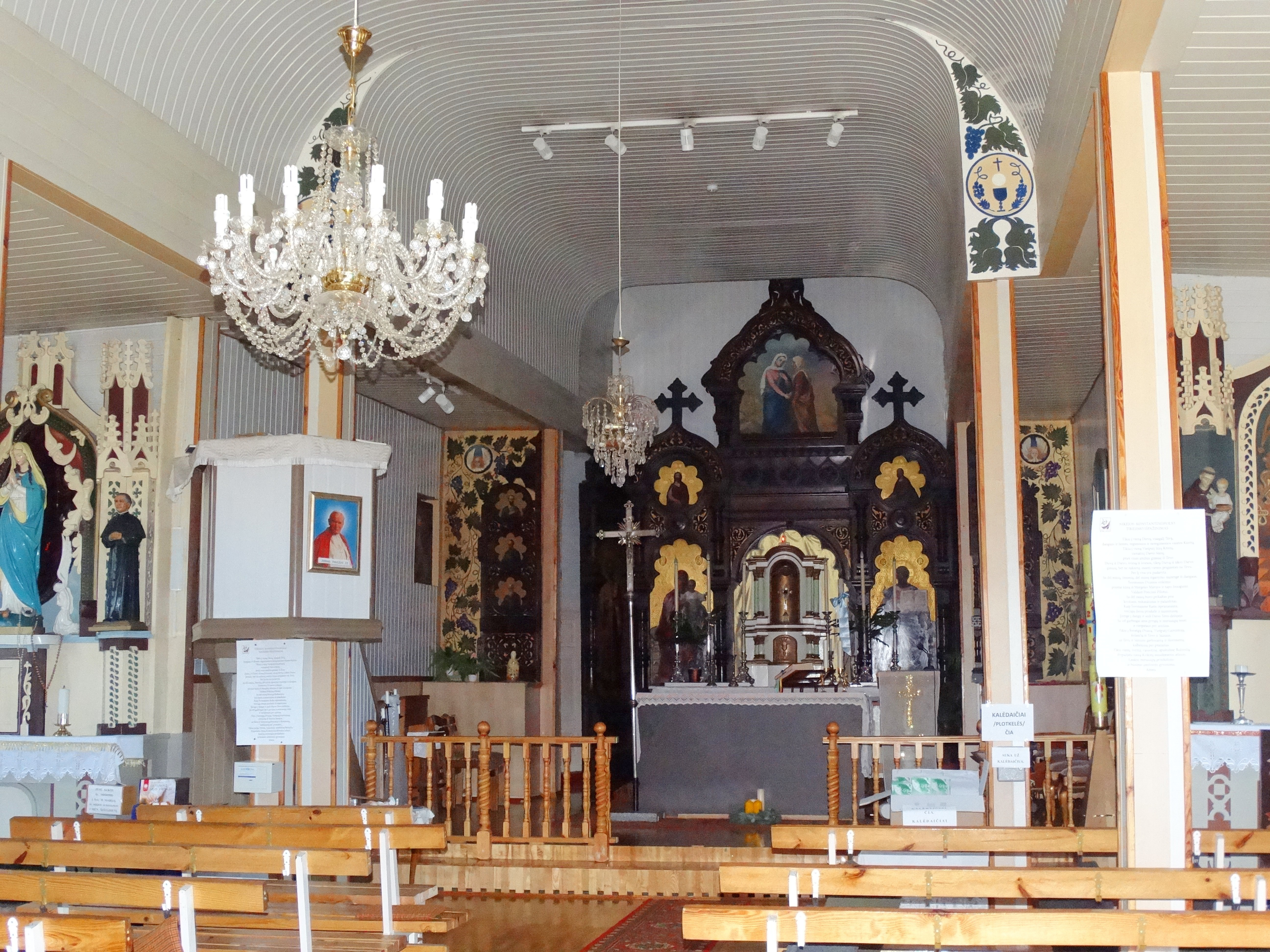 Church, Šlienava, Kaunas District. Lithuania